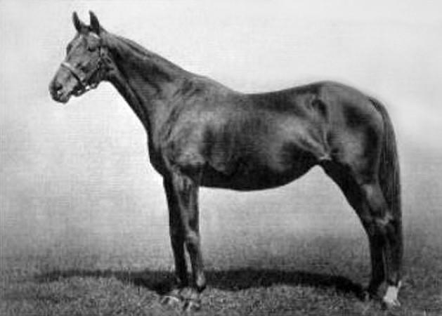 Perdita II was a British bred Thoroughbred racemare who was undefeated in her seven race starts and was later an outstanding broodmare.